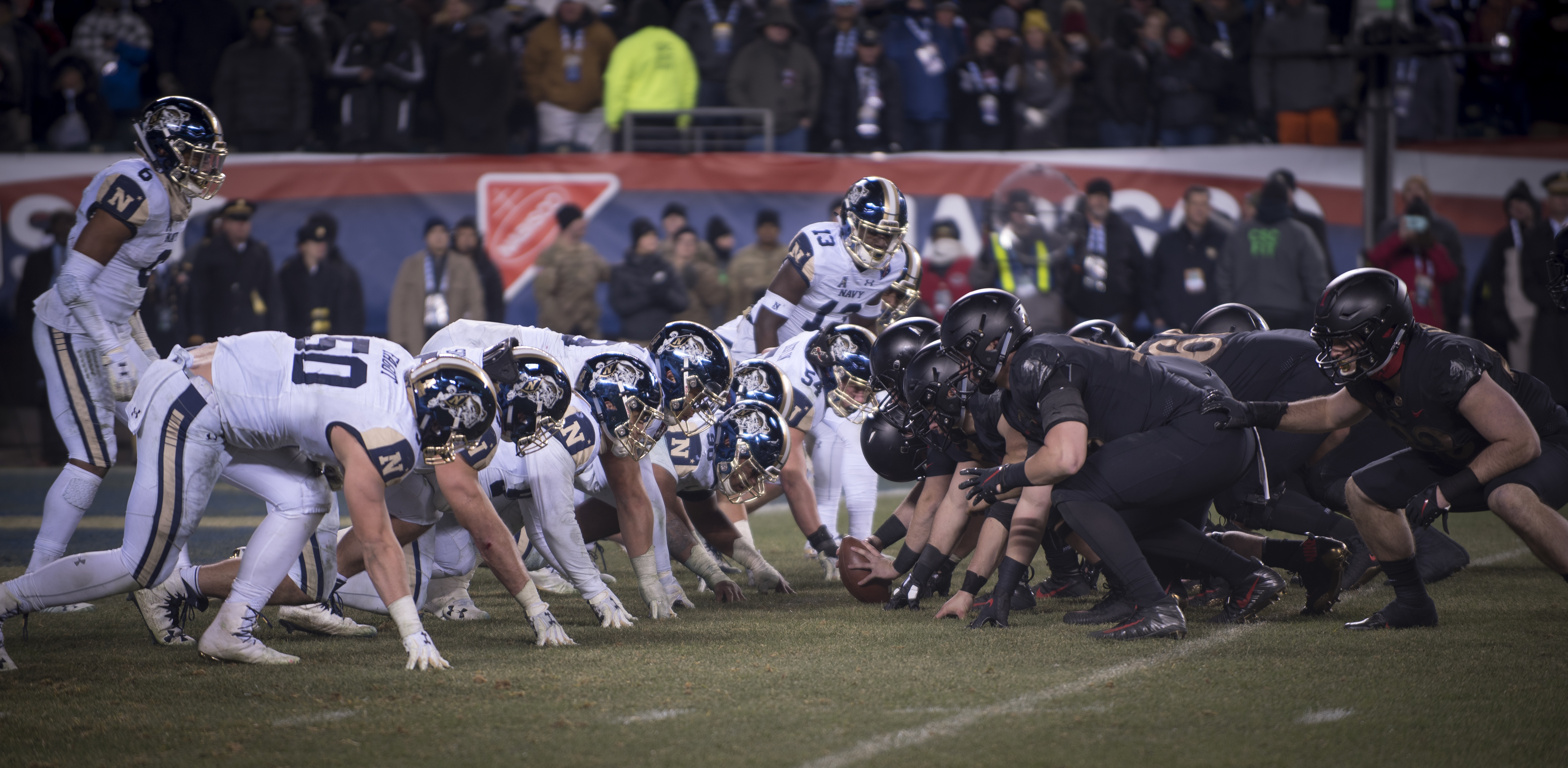 181208-N-YG104-0380 PHILADELPHIA (Dec. 8, 2018) U.S. Naval Academy and United States Military Academy football players prepare for the snap at the Army-Navy football game. This is the 119th meeting between the U.S. Naval Academy Midshipmen and the U.S. (U.S. Navy photo by Mass Communication Specialist 1st Class Sarah Villegas/Released)